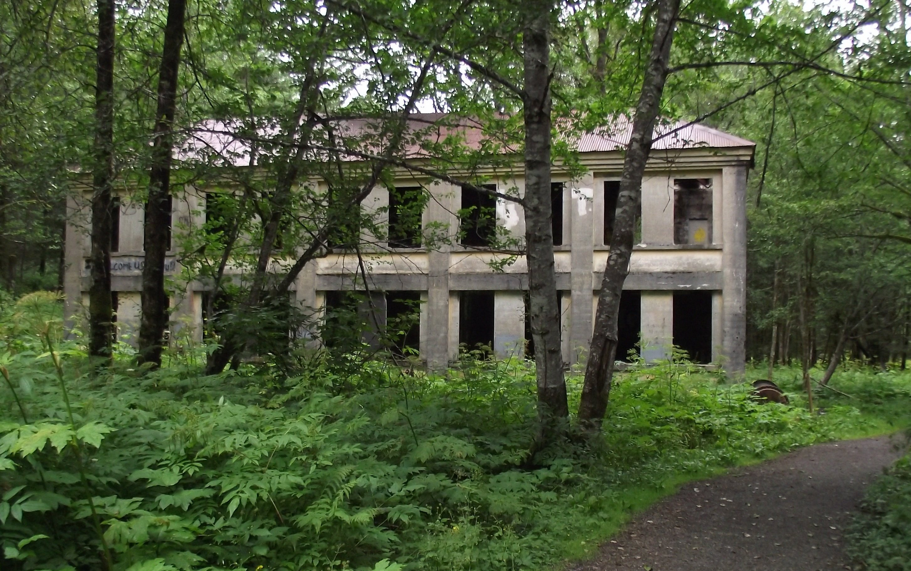 The "New" Office Building at the Treadwell Gold Mine site, Juneau Alaska